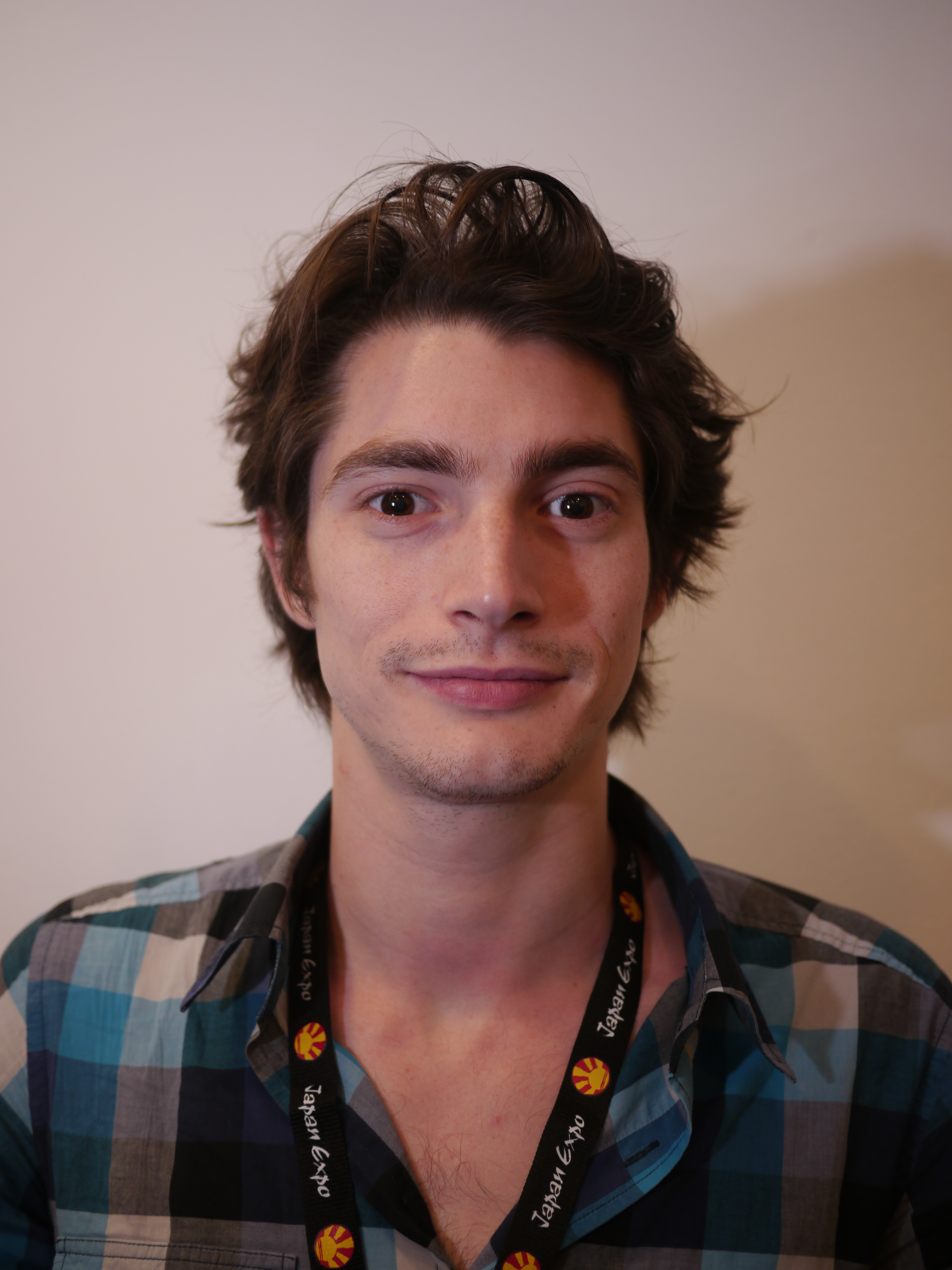 Japan Expo Festival, 12th impact